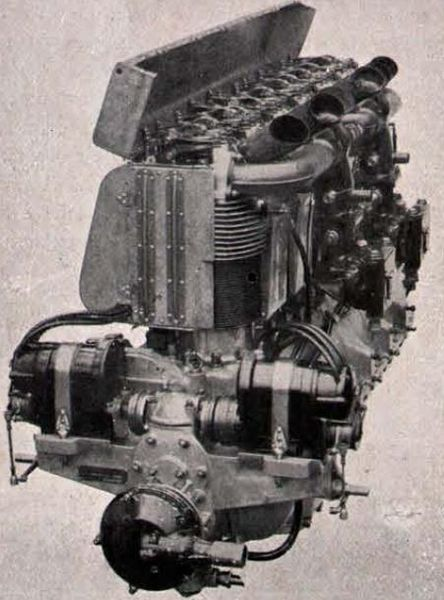 The Colombo S.63, a six cylinder air-cooled in-line piston engine manufactured by Colombo in Italy.